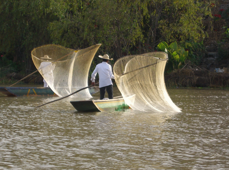 reconstitution of the traditional fishing on the lake Pátzcuaro (Michocán), Mexico